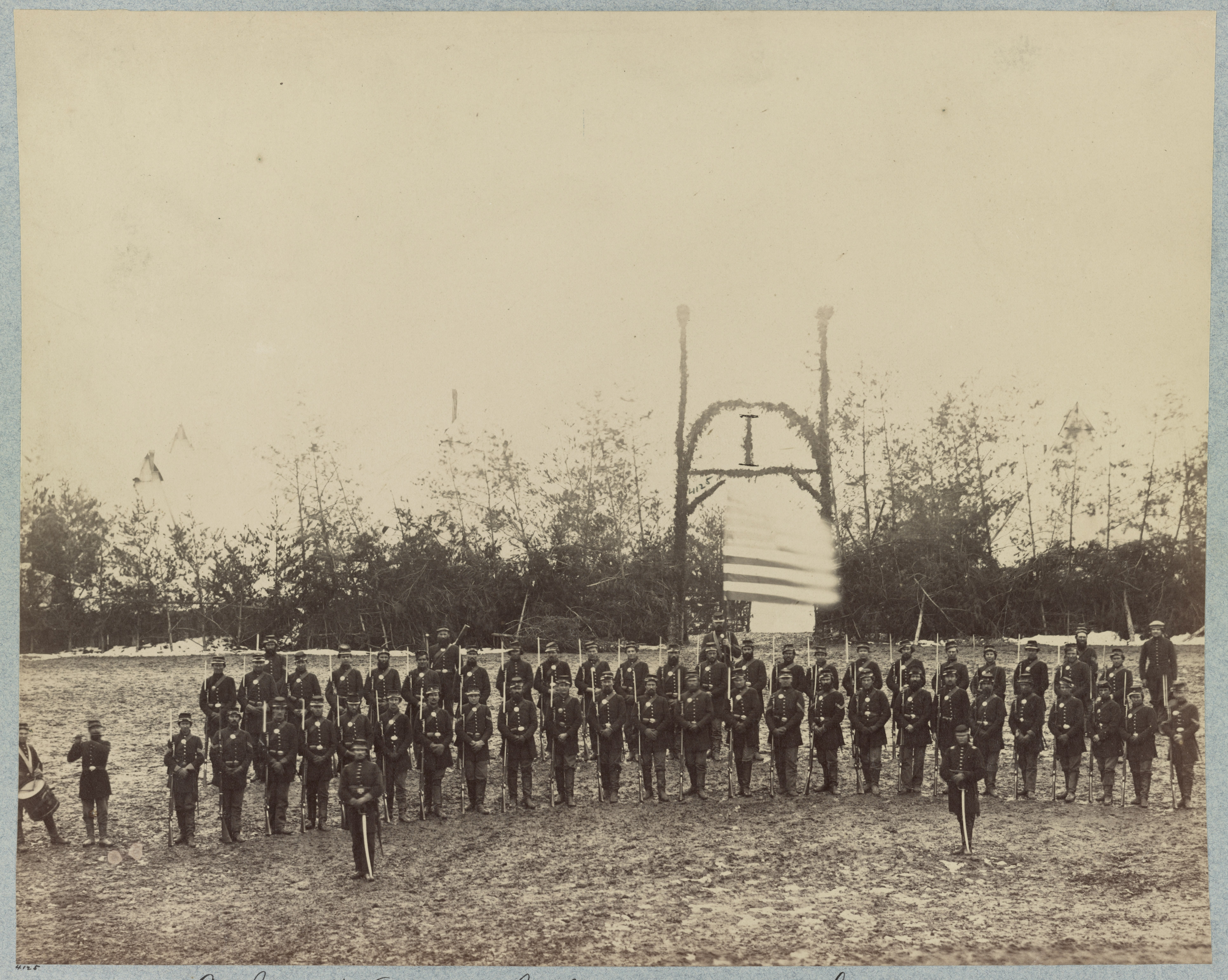 Title: Co. I, 6th Vermont Infantry - Camp Griffin, Va Physical description: 1 photographic print on card mount : albumen. Notes: No. 4125.; Hand written on verso: "Miller, vol. 8, p. 64 - 65".; Gift; Col. Godwin Ordway; 1948.; Title from item.